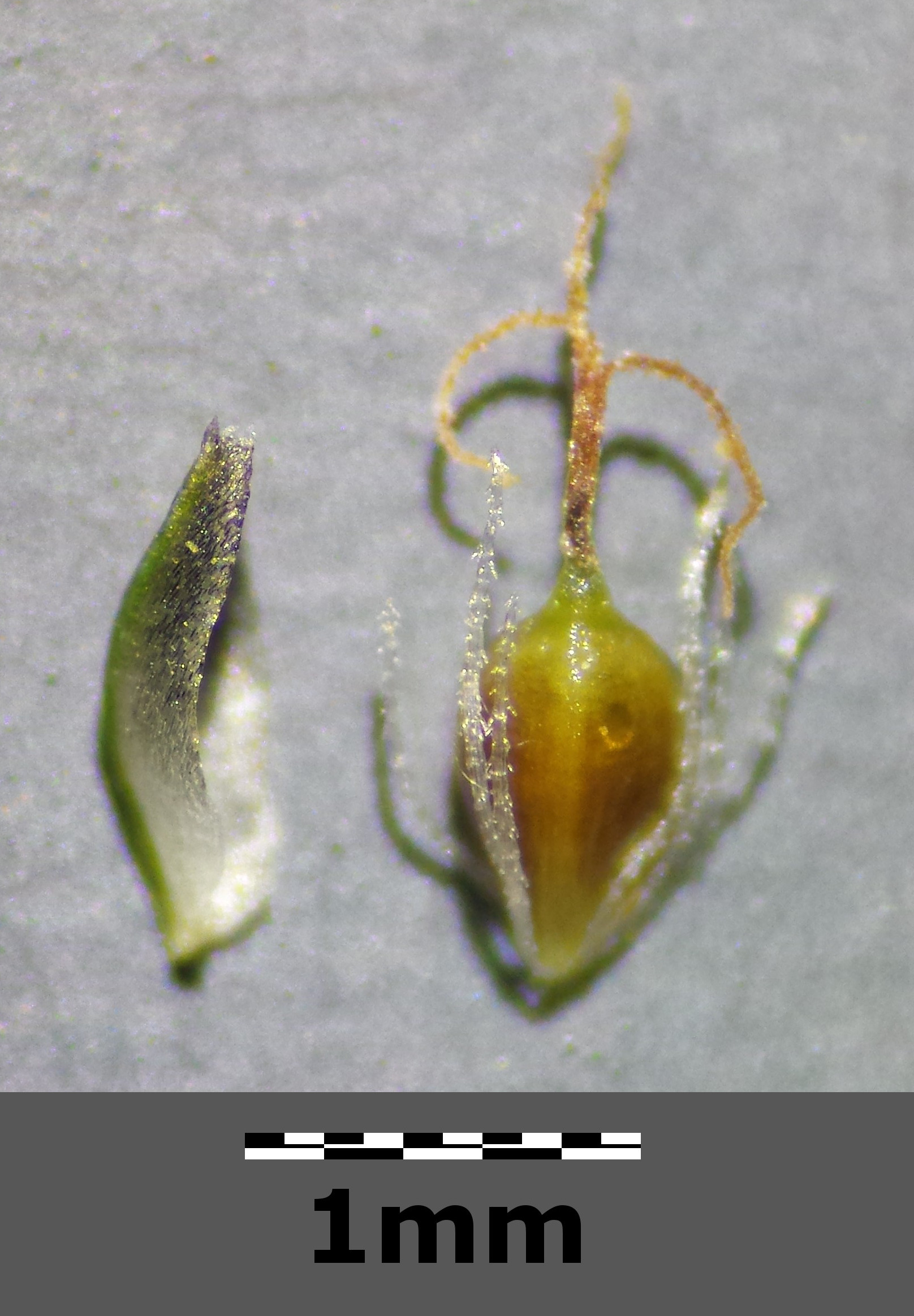 Bract and flower/fruit Taxonym: Scirpus sylvaticus ss Fischer et al. EfÖLS 2008 ISBN 978-3-85474-187-9 Location: near Komau, district Freistadt, Upper Austria - ca. 850 m a.s.l. Habitat: wet meadows